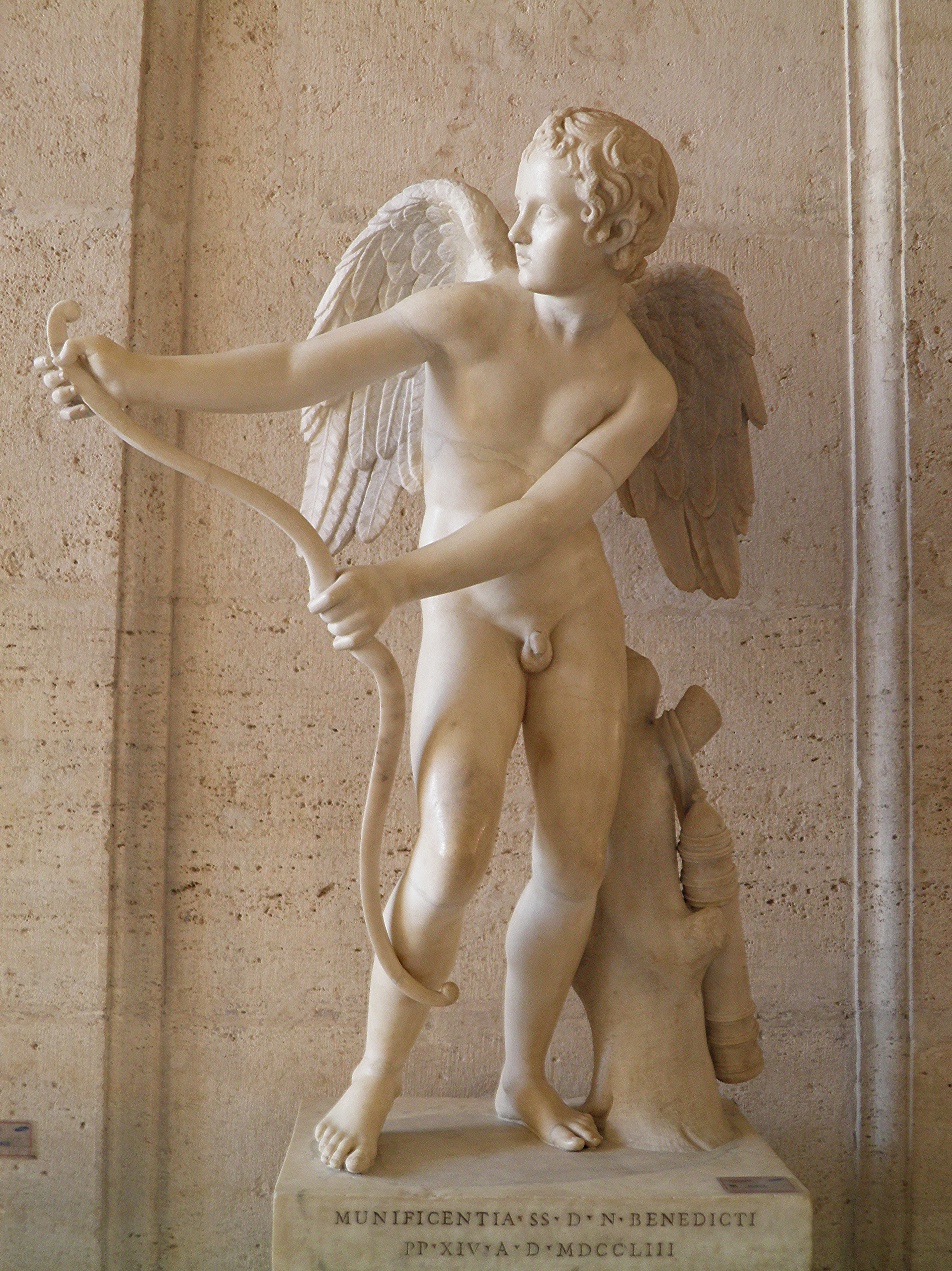 Eros stringing his bow, Roman copy after Greek original by Lysippos, 2nd century AD, Capitoline Museums